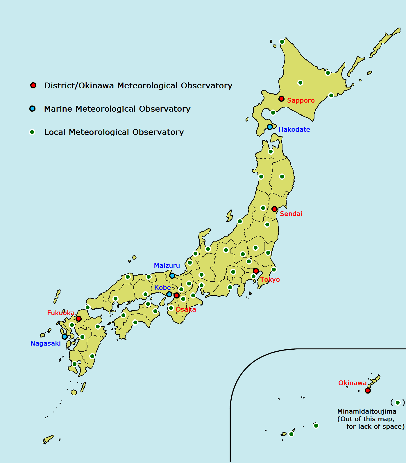 The map showing locations of meteorological observatories of the Japan Meteorological Agency.